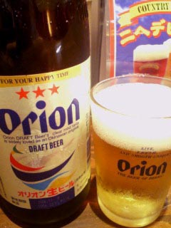 Orion Beer poured in glass